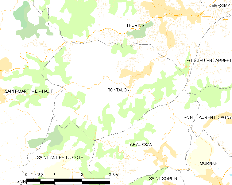 Map of French municipality